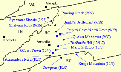 Map showing the general march route of the Overmountain Men— the frontier militia that helped defeat the British loyalists at Kings Mountain in 1780. The main body mustered at Sycamore Shoals, in modern Elizabethton, Tennessee, on September 25, 1780, and departed the following morning. "Shelving Rock" is just south of the town of Roan Mountain, Tennessee. The force camped at the confluence of Bright's Branch and Roaring Creek on September 27, and at Bright's settlement (modern Spruce Pines, N.C.) on September 28. Quaker Meadows is located in modern Morganton, North Carolina. Gilbert Town is near modern Rutherfordton, North Carolina. Cowpens is north of Spartanburg, South Carolina. Abingdon and the modern cities of Knoxville and Asheville are shown for reference.